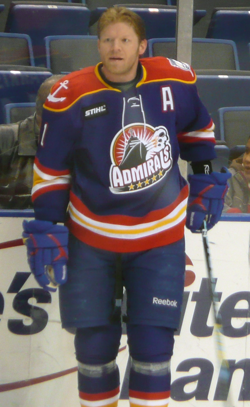 Mark Parrish, then of the AHL Norfolk Admirals, warms up before a game against the Hartford Wolf Pack in Hartford, CT on 2/17/2010.